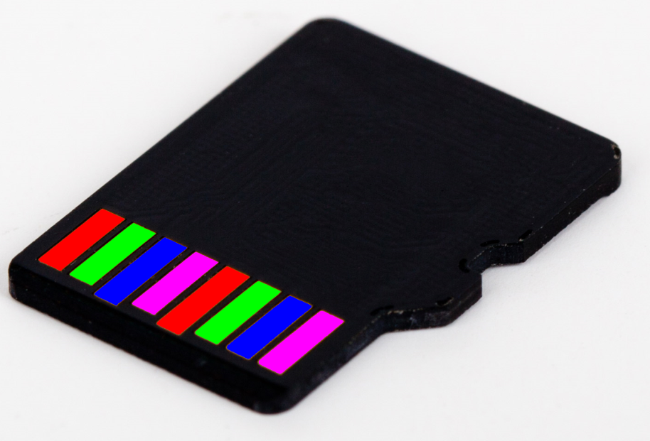 Contacts of SD-Card as BLOBs.